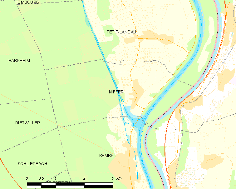 Map of French municipality